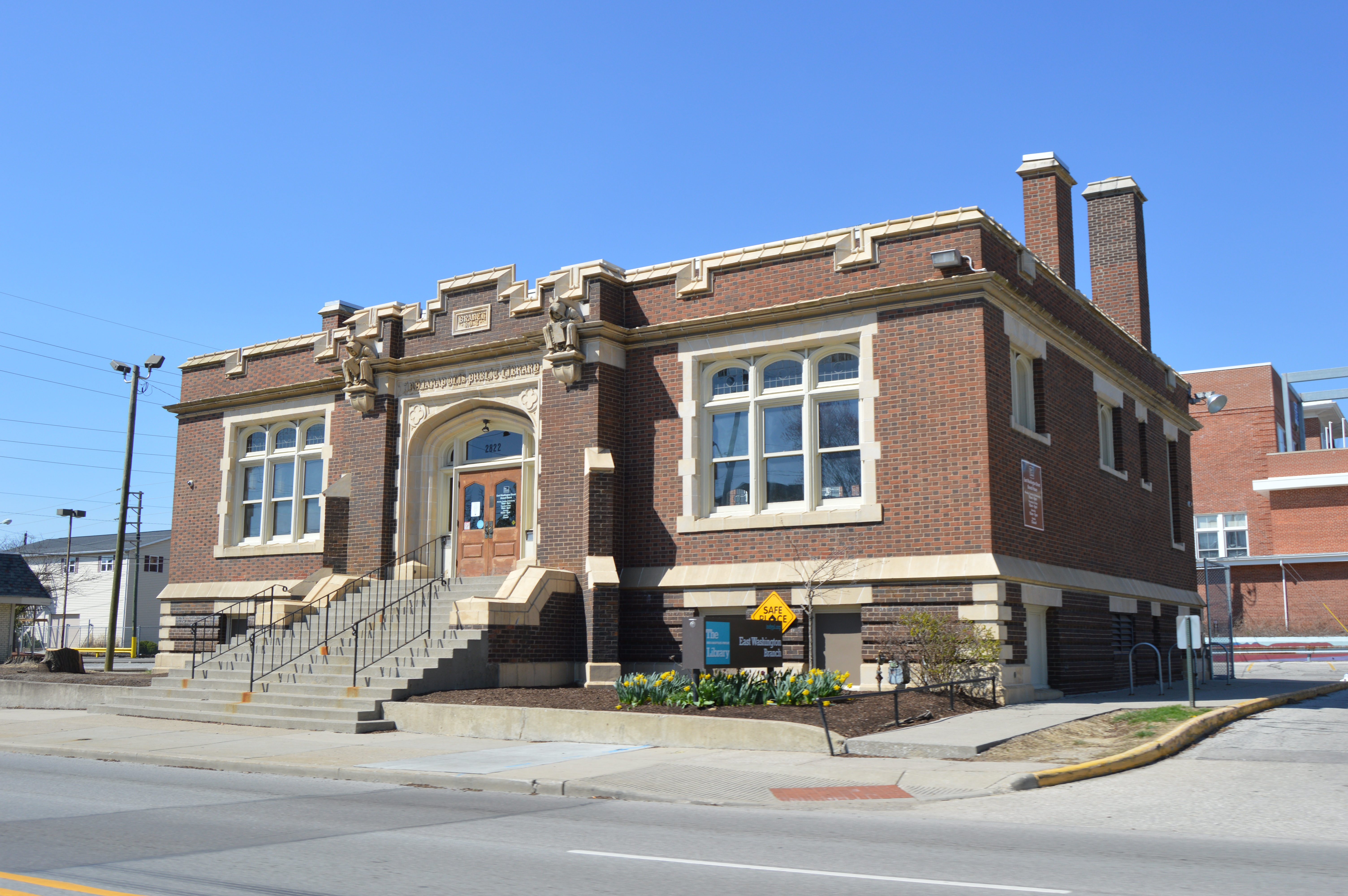 Front and eastern side of the Indianapolis Public Library Branch No. 3, located at 2822 E. Washington Street in Indianapolis, Indiana, United States. Built in 1911, it is listed on the National Register of Historic Places.